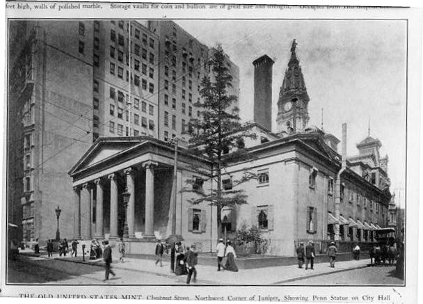 Photocopy of photograph (from Moses King, Philadelphia and Notable Philadelphians , 1902, p. 260) OBLIQUE VIEW, SHOWING SOUTH (FRONT) AND EAST(SIDE) ELEVATIONS - Old U.S. Mint, Chestnut & Juniper Streets, Philadelphia, Philadelphia County, PA.